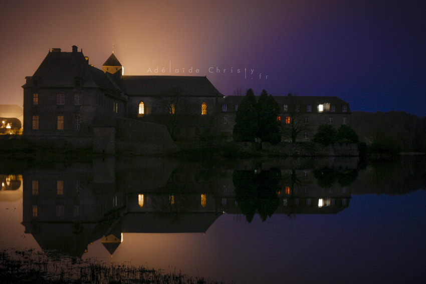 500px provided description: Abbaye De Paimpont [#abbey ,#for?t ,#abbaye ,#paimpont ,#broc?liande ,#abbaye de paimpont]